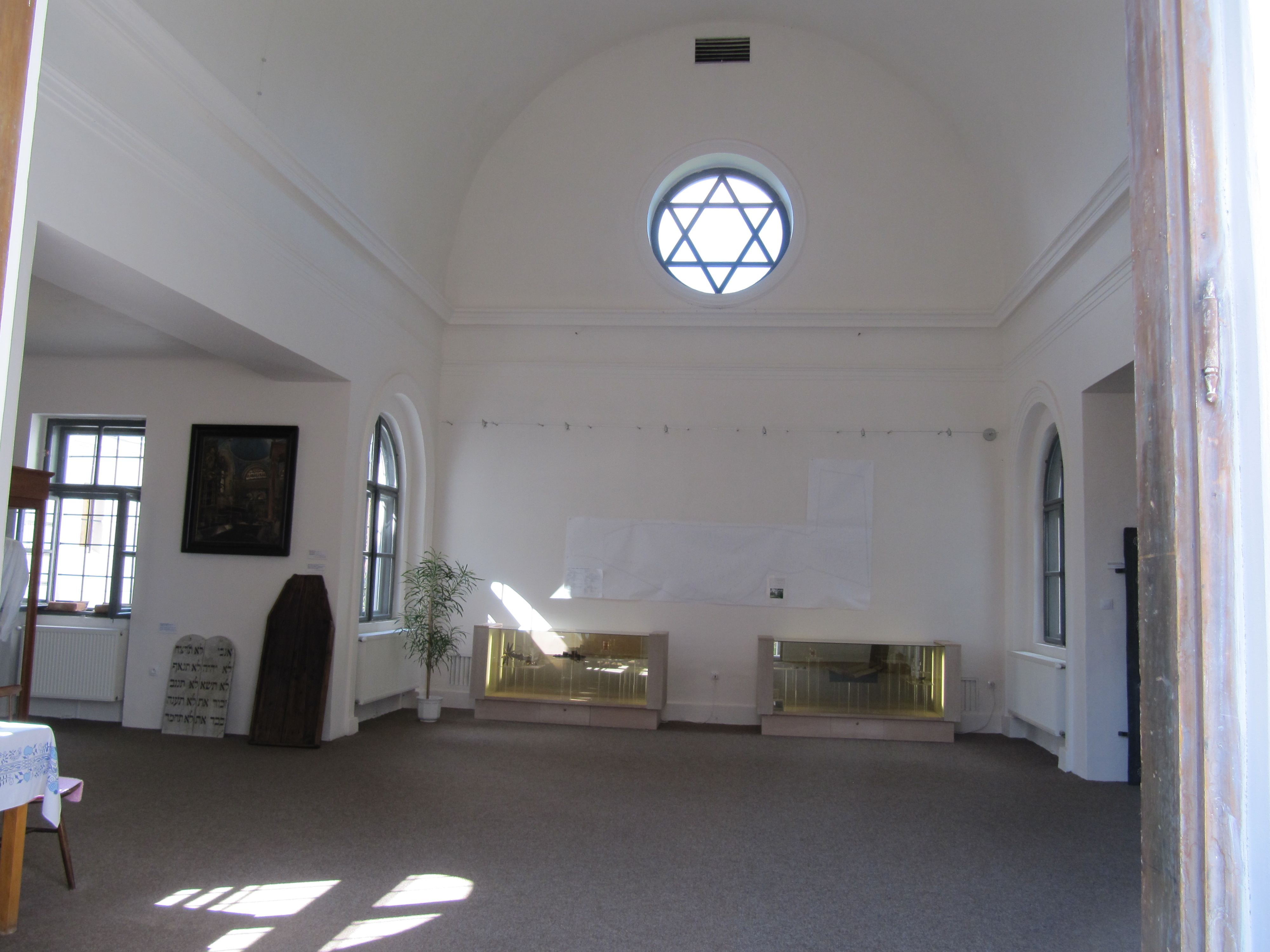 Mikulov in Břeclav District, Czech republic. Interior the ceremonial hall at the Jewish cemetery.